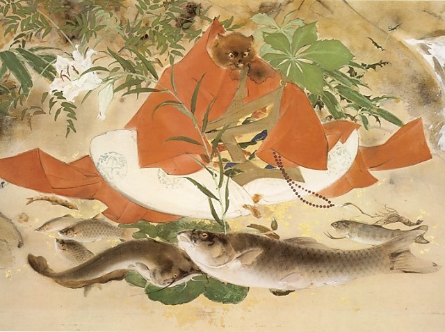 Painting named Priest Otter